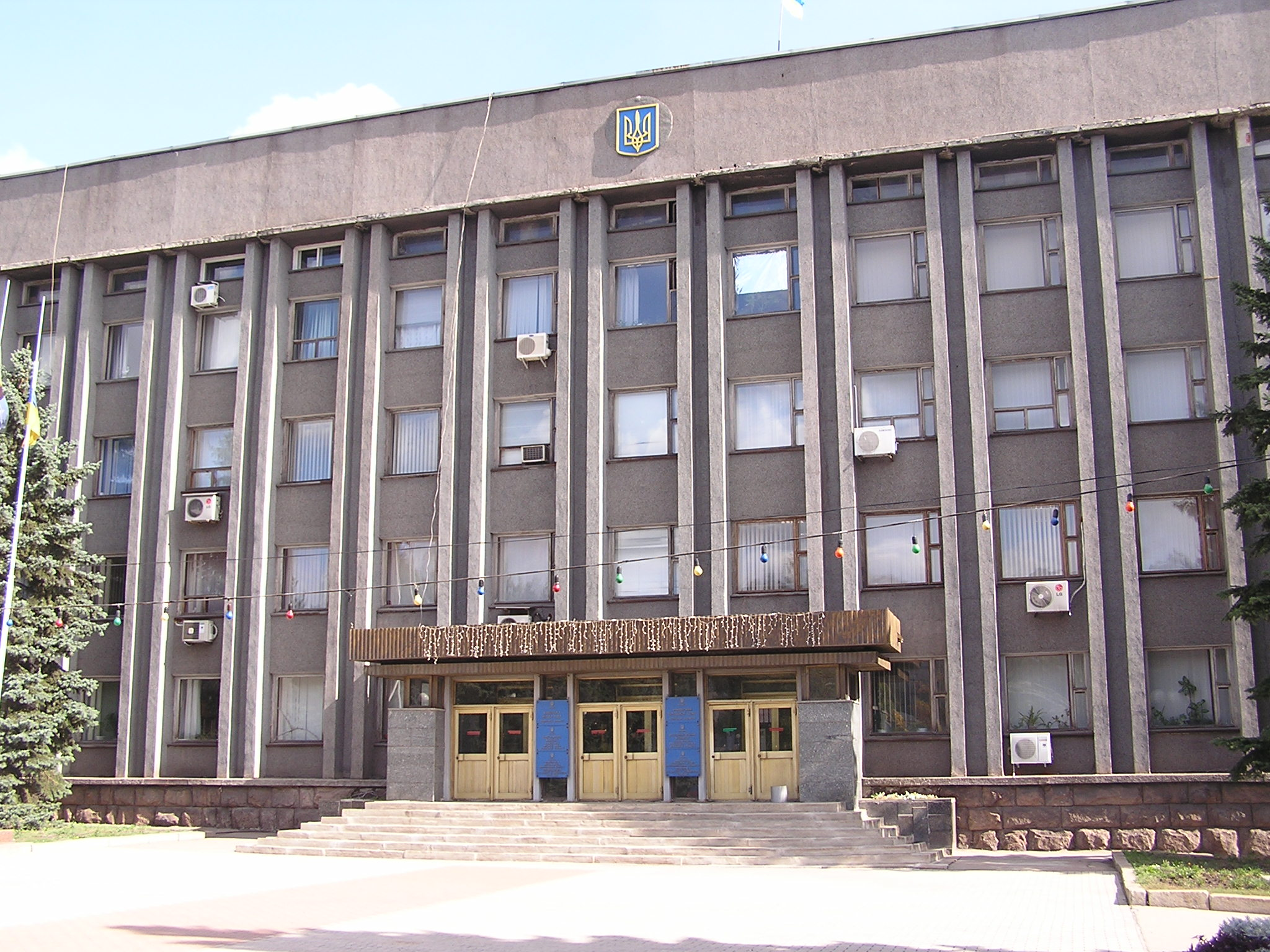 town hall of Makiivka